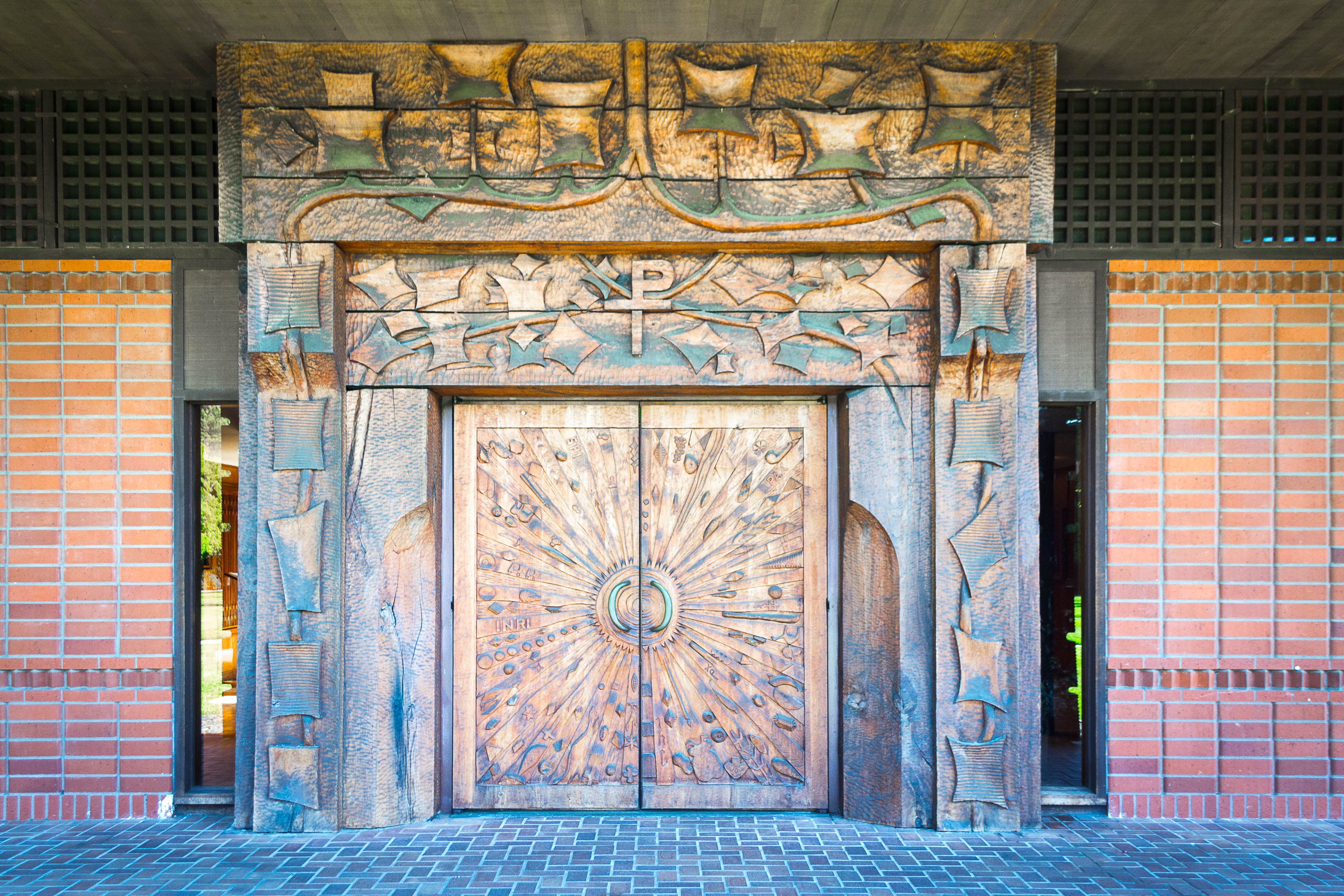 The massive doors to the chapel at the University of Portland